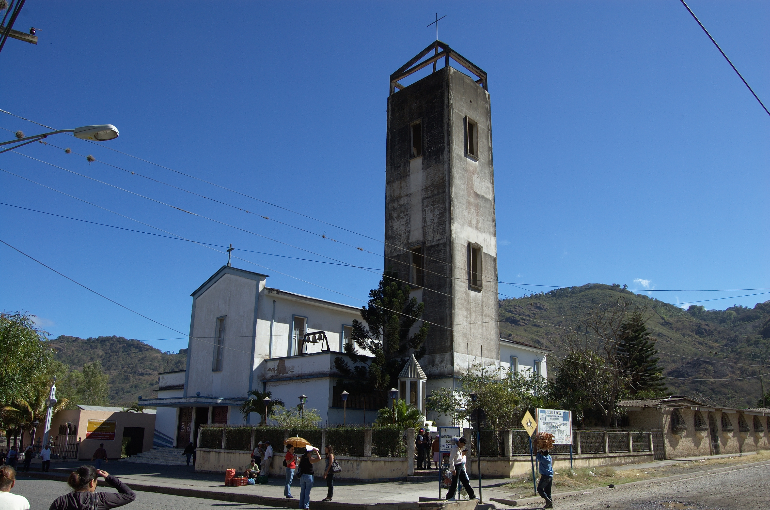 Church in Jinotega, Nicaragua